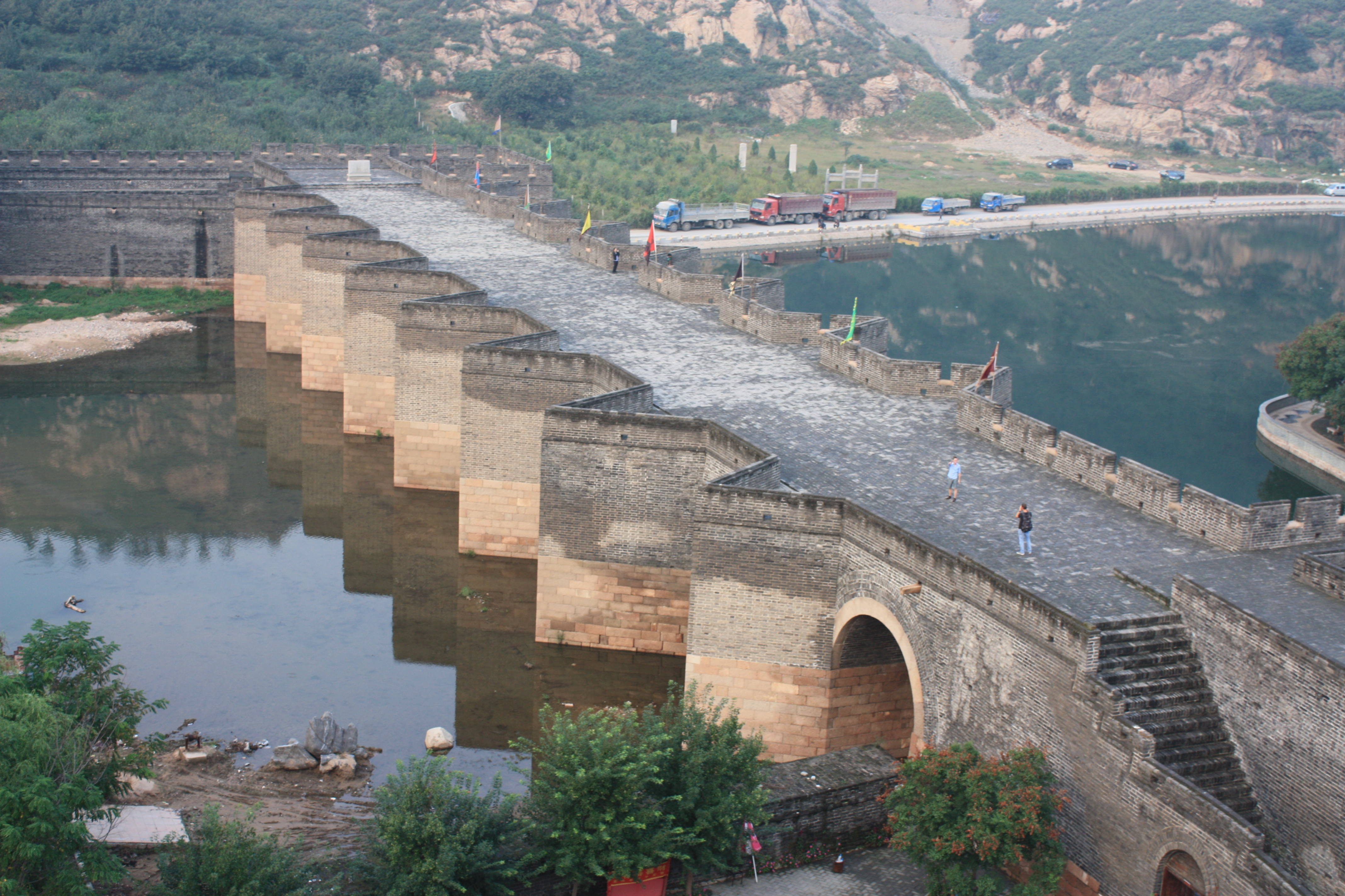 Great Wall of China at Jiumenkou